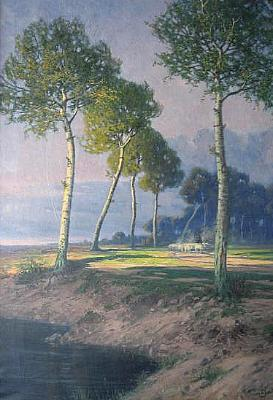 Flock of sheep on the river